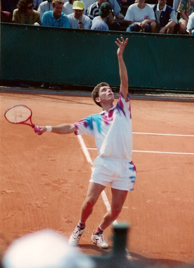 Russian tennisman Andreï Cherkasov, during his loss against Thomas Muster in the 1st round of the 1994 French Open.